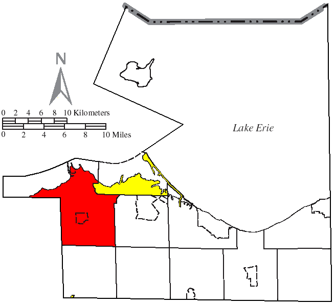 Made by the US Census and modified by myself